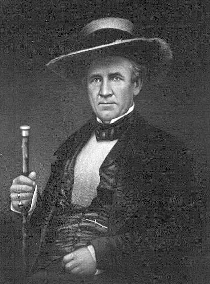 The portrait is from the University of Texas at Austing Portrait Gallery, specifically shouston.jpg. The cited source there is